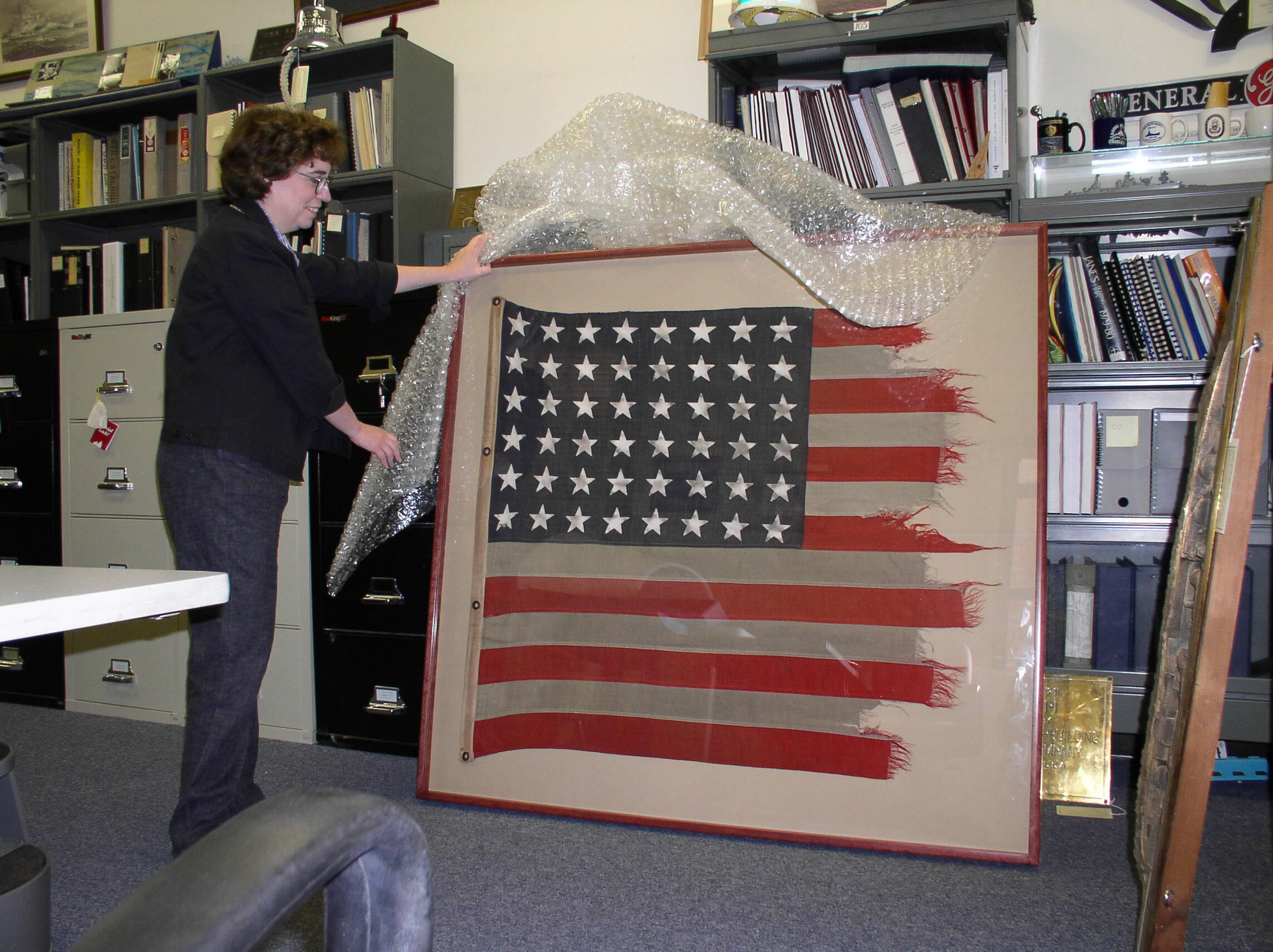 Washington, D.C. (Jun. 15, 2004) - Karen France, Curator with the Naval Historical Center (NHC), examines the World War II battle flag of the destroyer USS Zellars (DD 777) after its recent conservation. The flag, damaged during a 1945 kamikaze attack, was preserved through the efforts of the NHC, USS Zellars Association, and the Stillwater Textile Conservation Studio. Zellars saw combat service in both World War II and Korea, was attacked by three kamikazes during the Battle of Okinawa and suffered 64 killed when two hit the ship. The conservation of the flag was especially meaningful of the USS Zellars Association's thirty surviving World War II members. U.S. Navy photo (RELEASED)